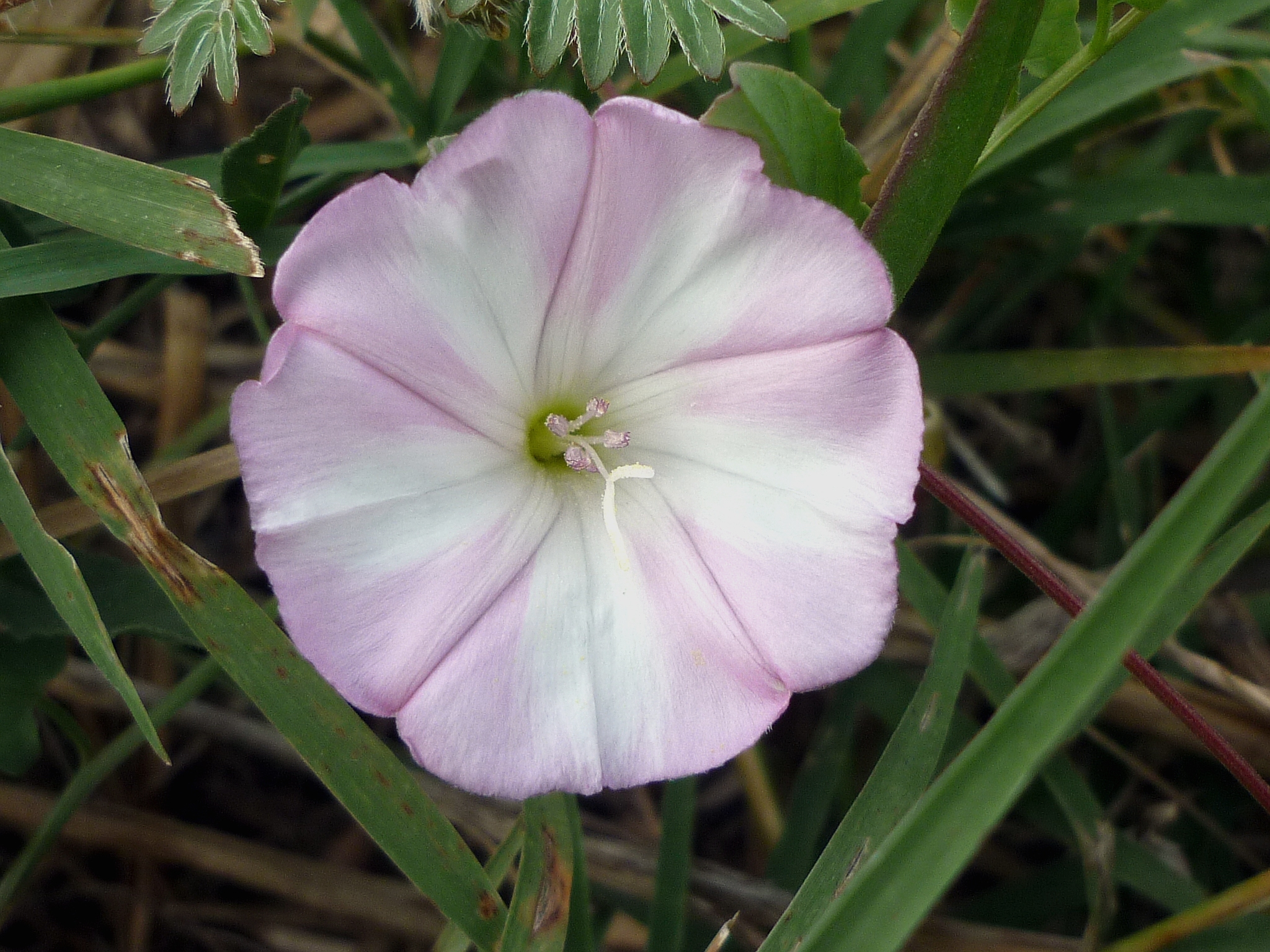 Convolvulus arvensis. In Torà (Segarra-Catalunya). To 510 m. altitude